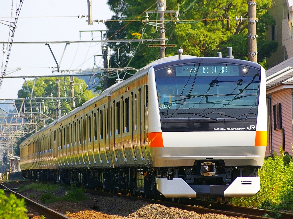 The first completed JR East E233 series EMU (set H43) for the Chuo Line on a test run between Kita-Kamakura and Ofuna stations shortly after delivery from the Tokyu Car factory in Yokohama